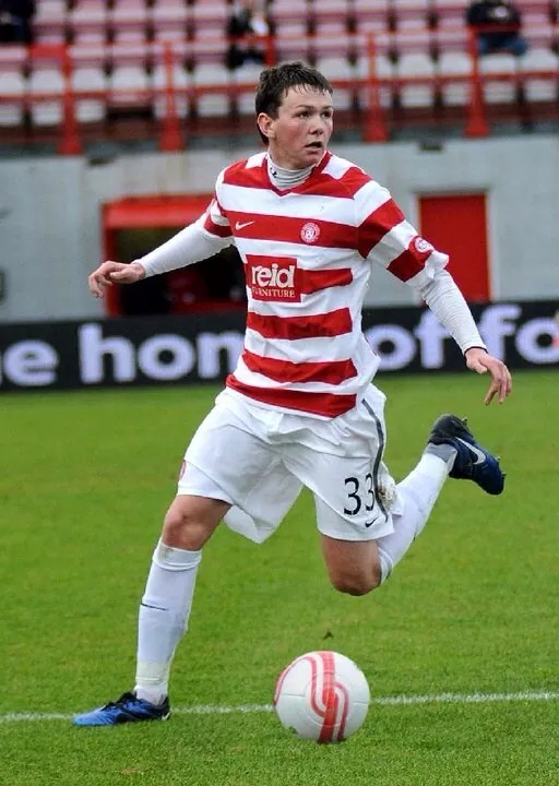 Lee Kilday on 5th February 2011 against St. Mirren F.C